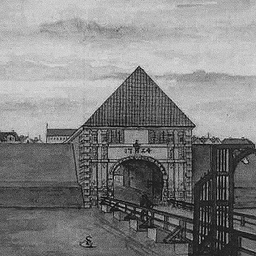 Amagerport seen from the outside. Decorated with pilasters and the King's Crown, the year "1724" is seen above the gate.